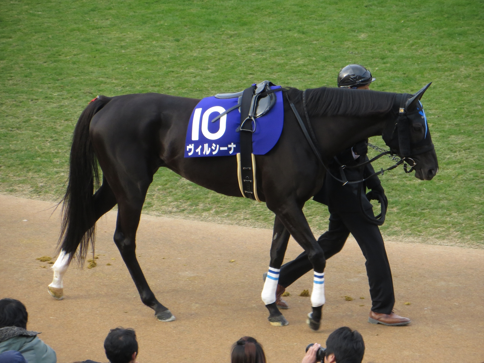 Verxina (Racehorse of Japan) in 39th Queen Elizabeth II Commemorative Cup, Kyoto Racecourse.